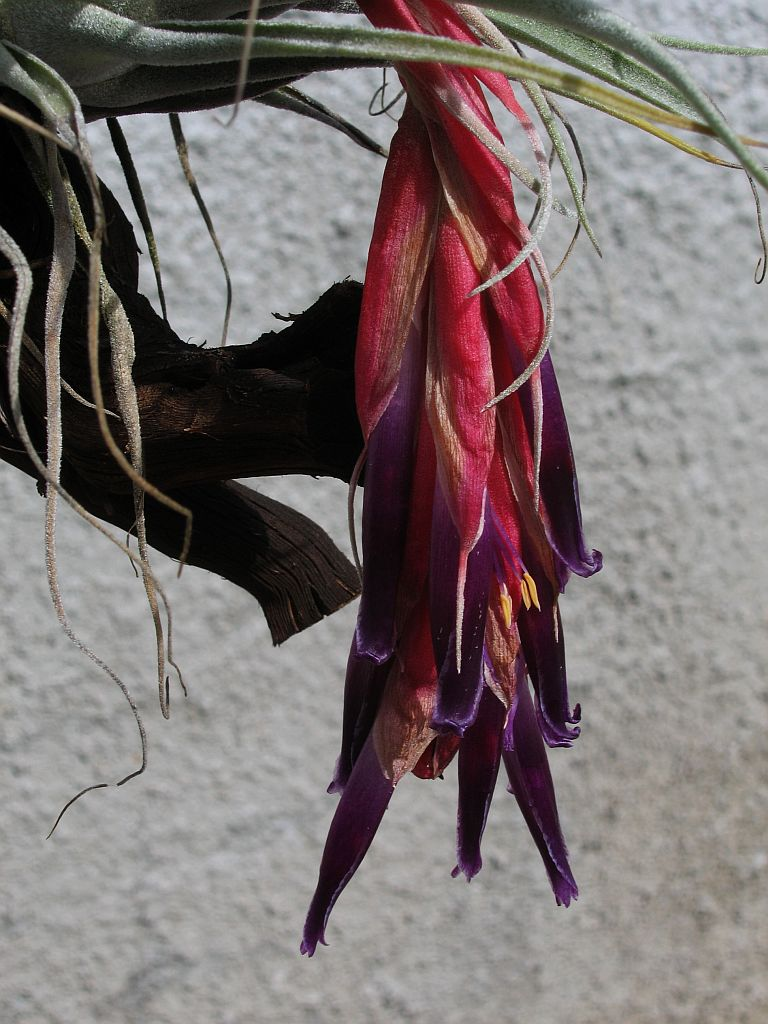 Tillandsia macdougallii, in cultivation at the Botanical Garden of Heidelberg, Germany.